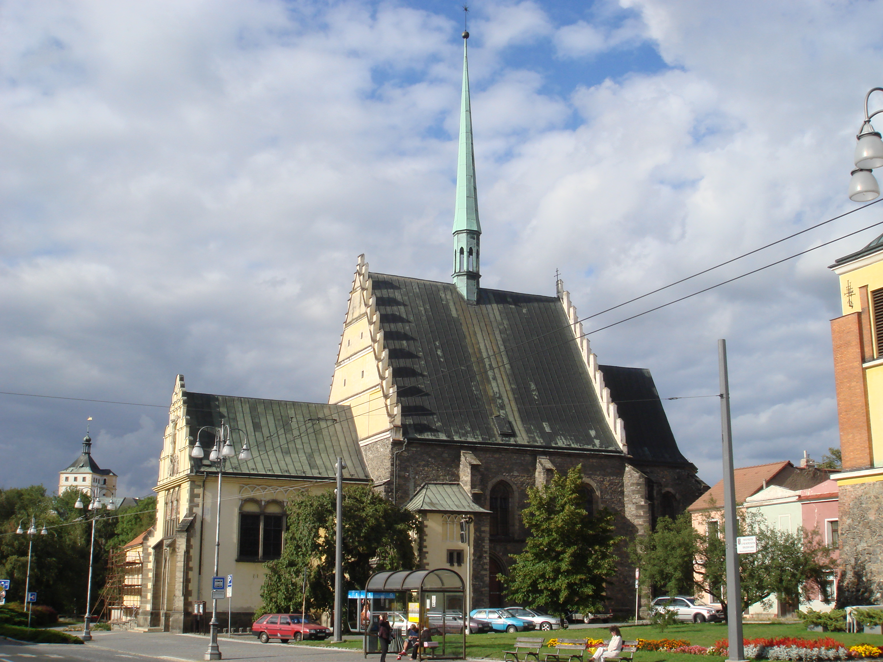 Church of St. Bartholomew in Pardubice (Pardubice Region, Czechia).